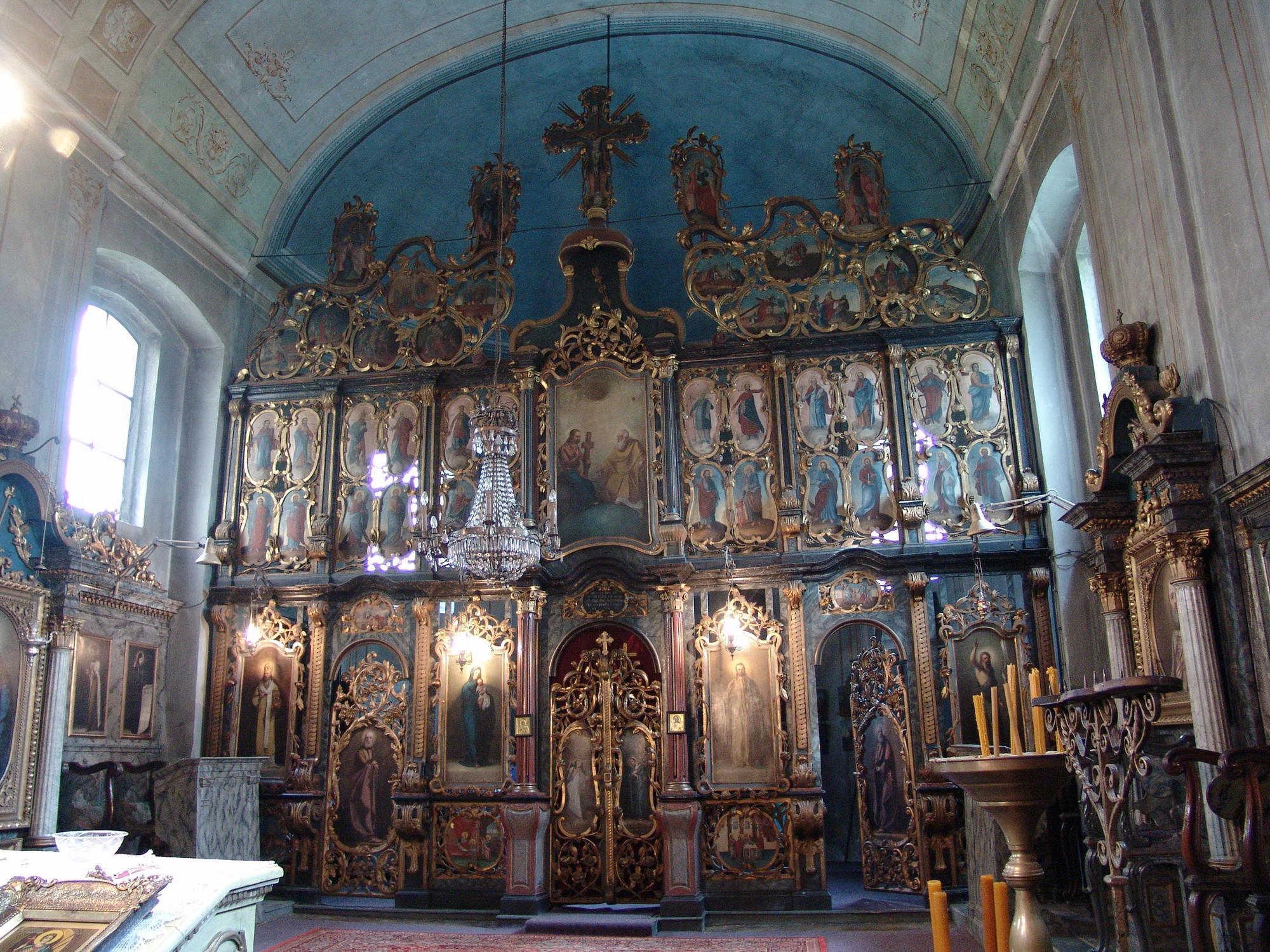 Serbian Orthodox church of Saint Procopius in Srpska Crnja - iconostasis